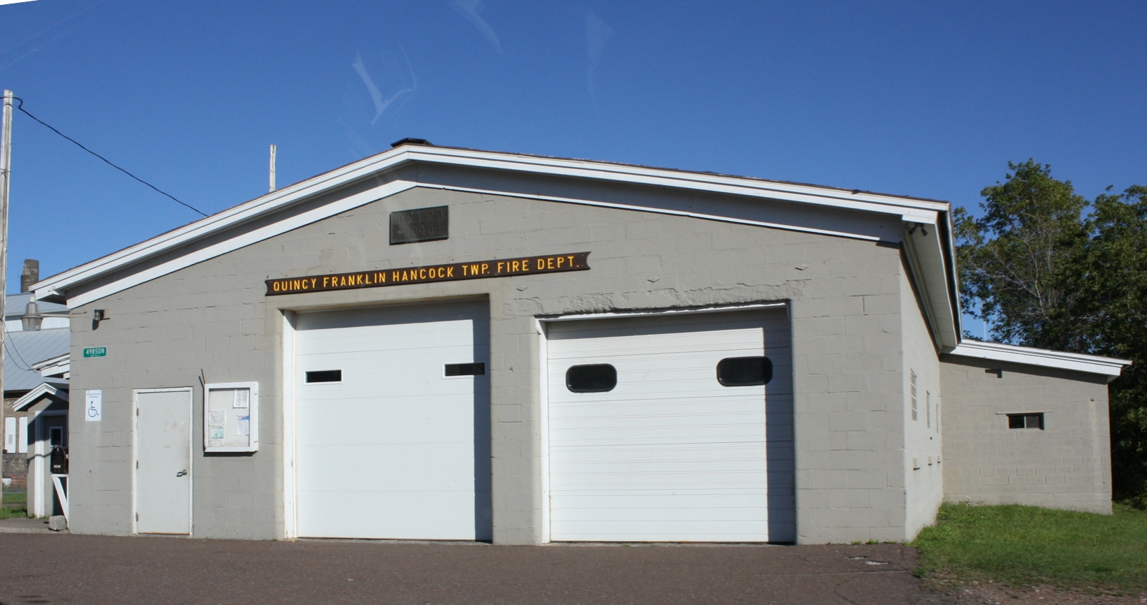 The fire station for Quincy Township, Houghton County, Michigan / Franklin Mine, Michigan / Hancock, Michigan along U.S. Route 41.